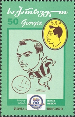 Stamps of Georgia, 2004